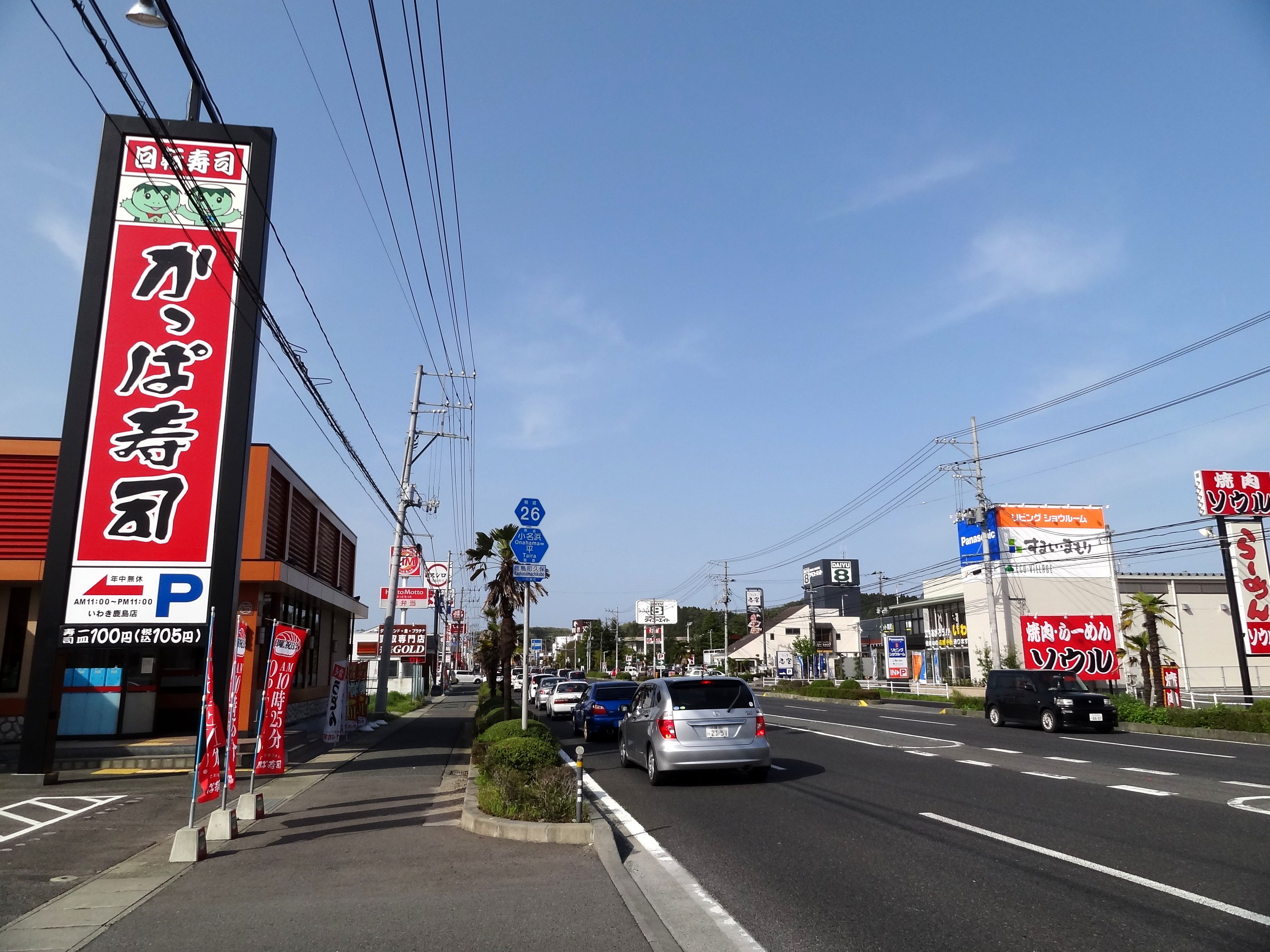 The Fukushima Prefectural Road Route 26 in Kashimamachi Kubo, Iwaki City